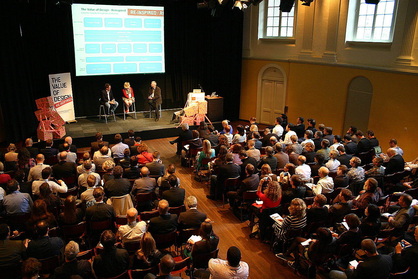 European International Design Management Conference: 'The value of design - re-inspired.' May 18-19, 2011 Venue: Felix Meritis Amsterdam, The Netherlands Organizer: Design Management Institute Co-chairs: PARK advanced design management (Tim Selders, Partner) and Caracta business direction (Fennemiek Gommer, Partner)